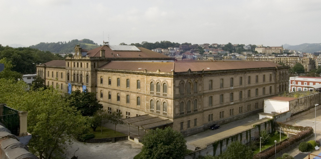 View of Tabakalera building in San Sebastian